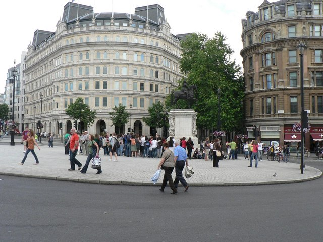 Westminster: Charing Cross Charing Cross is a road junction immediately to the south of Trafalgar Square, at the northern end of Whitehall.